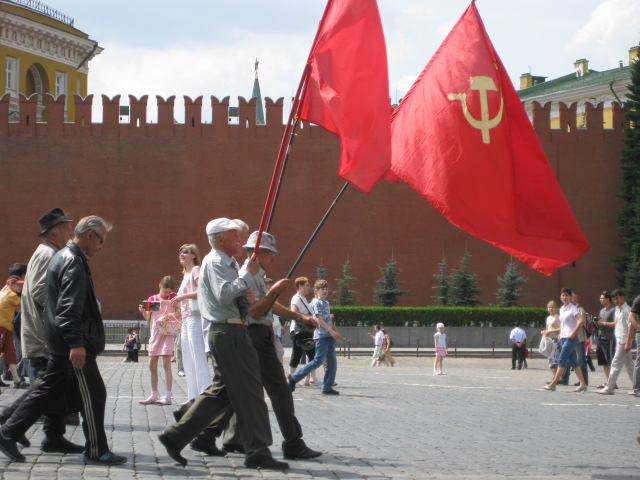 See title Don't know why camera info indicates 2008 -- took July 2009.